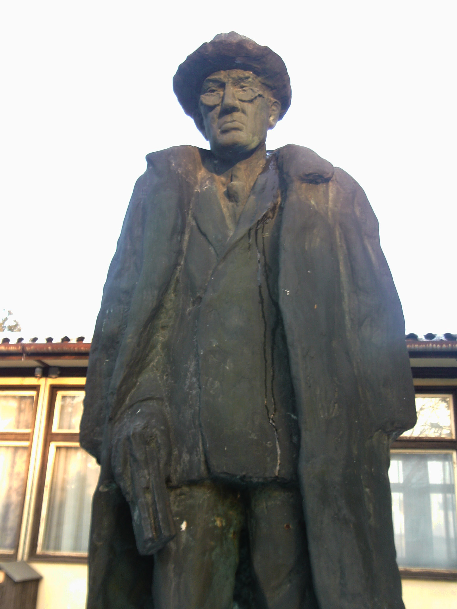 Nagy Lajos (Varga Imre, 1983) Talapzatán szöveg: Nagy Lajos/Kossuth-díjas író/e táj szülötte/1883-1954 - Bács-Kiskun megye, Apostag, Hunyadi utca 9., Nagy Lajos Általános Iskola előkertjében